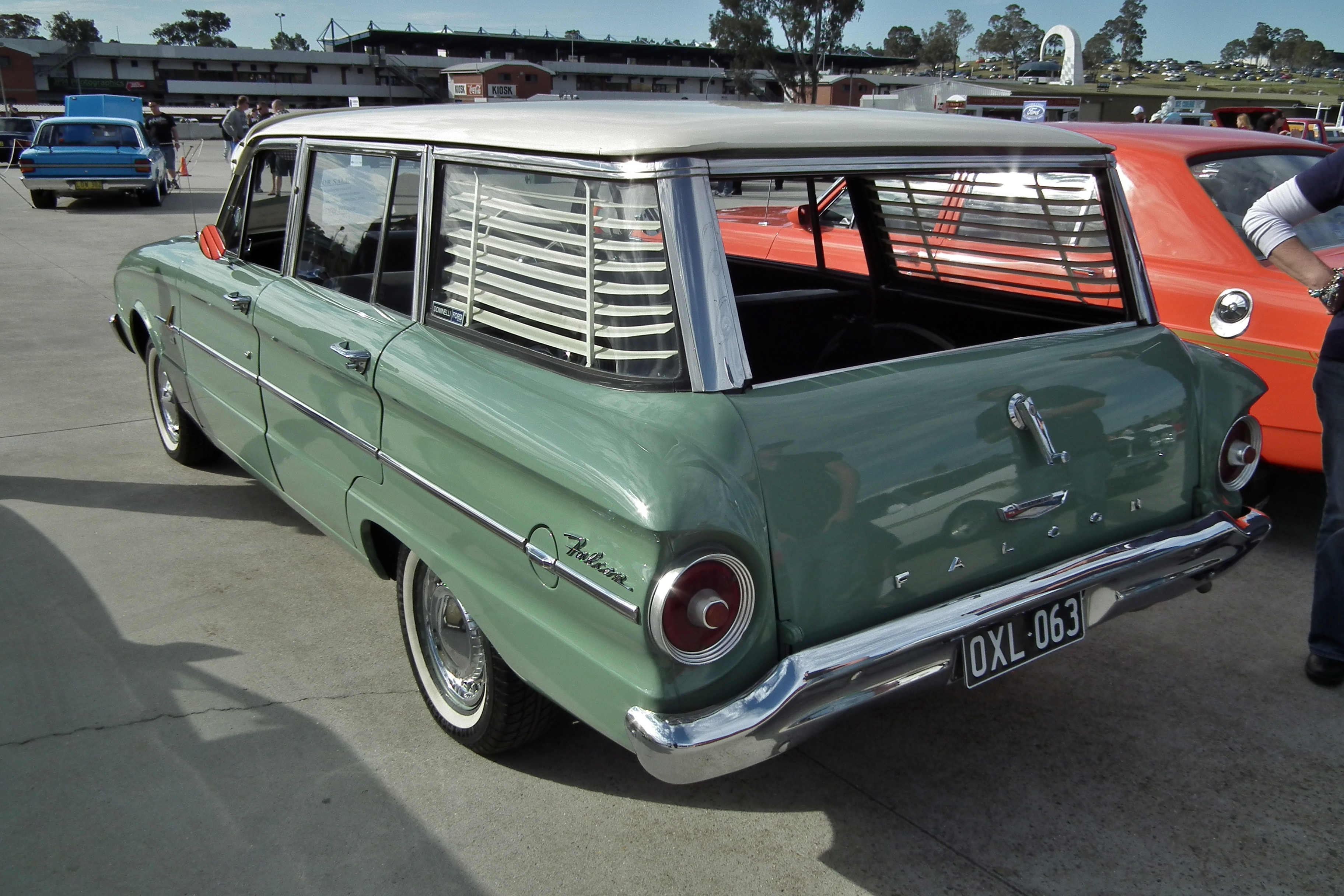 1963 Ford XL Falcon Deluxe station wagon. Taken at the 2011 New South Wales All Ford Day, held at Eastern Creek Raceway.